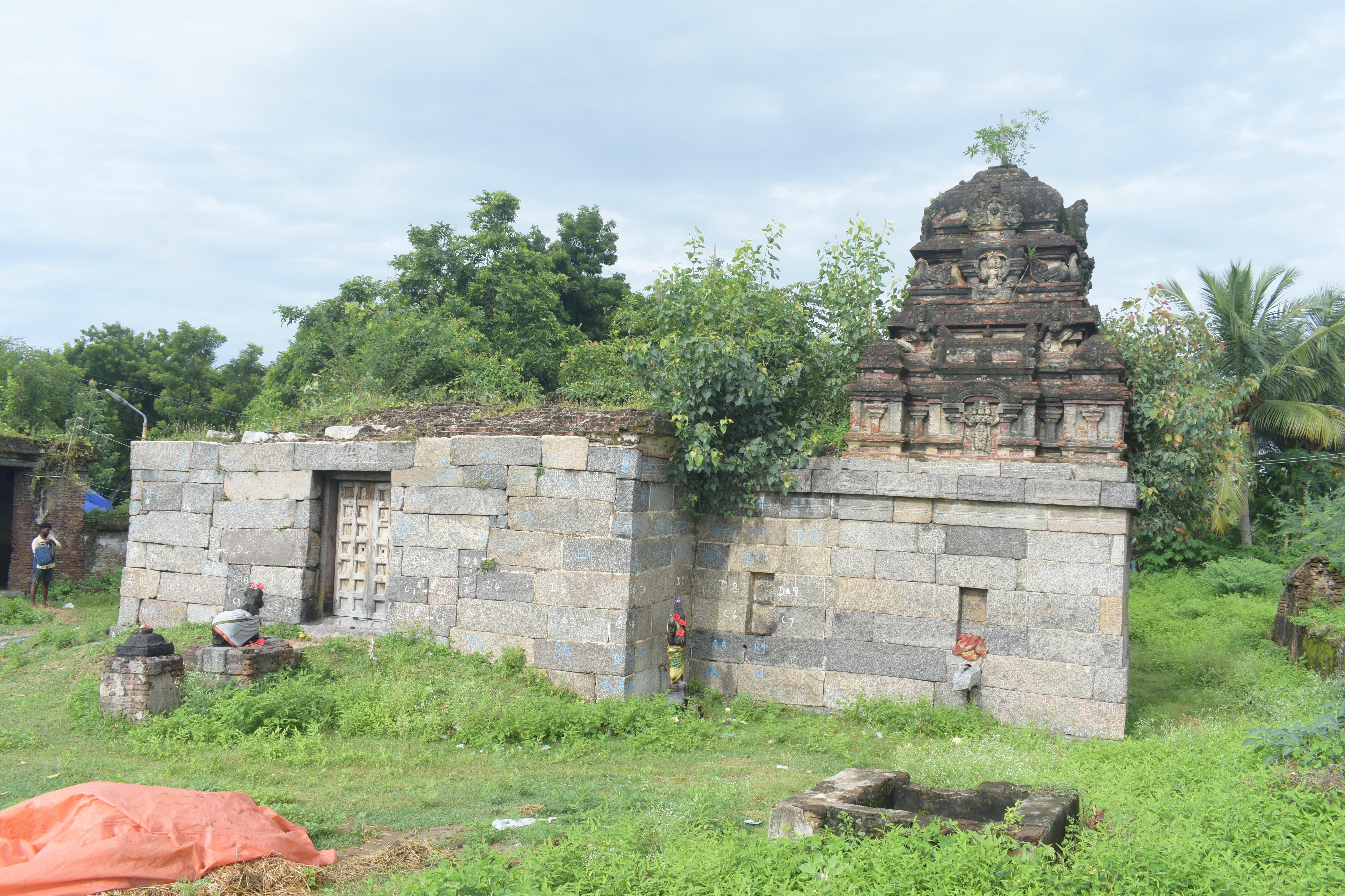 ஈஸ்வரகண்டநல்லூர் திருமூலநாதசுவாமி கோயில்